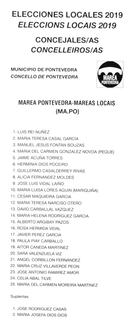 See title.